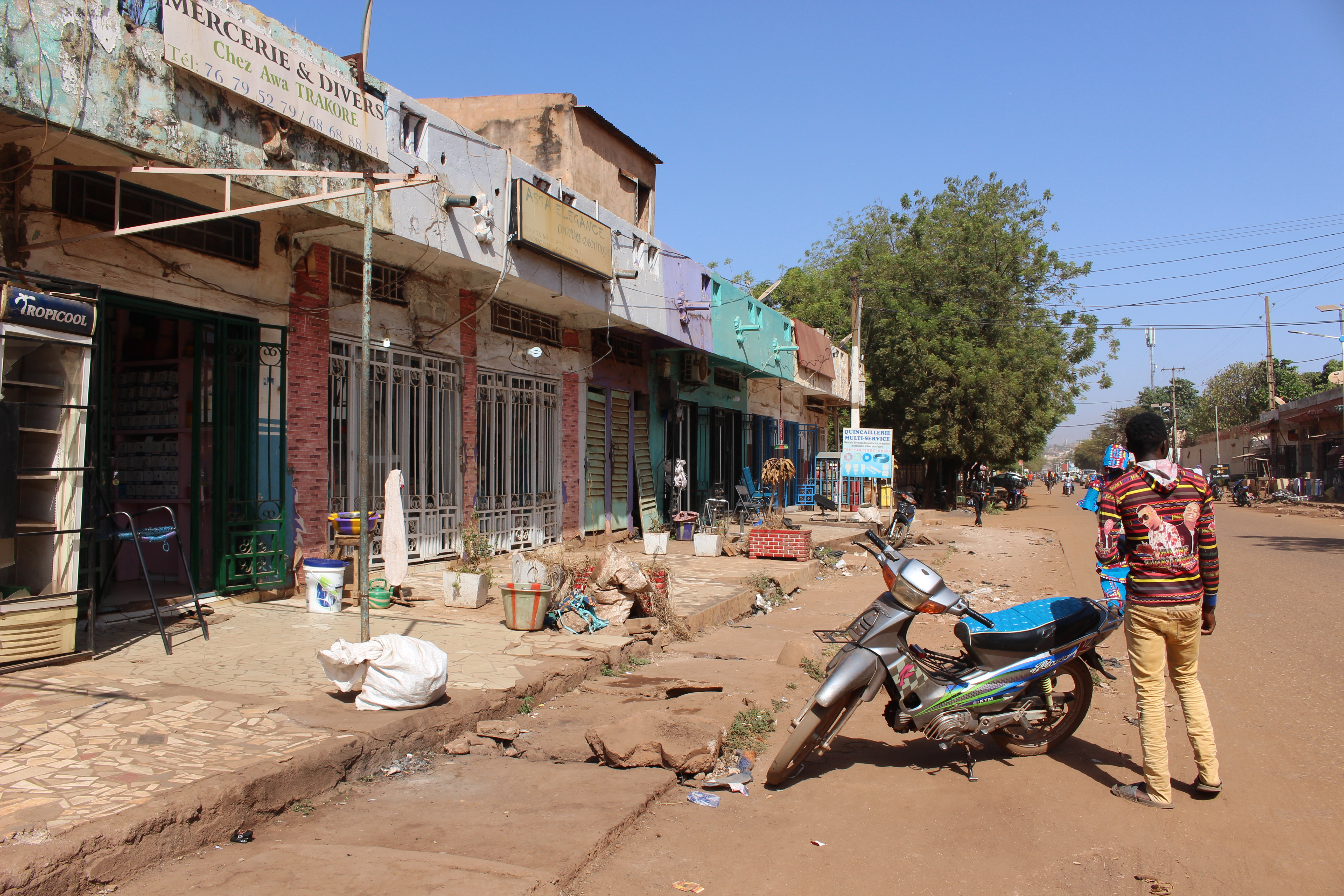 This is an image with the theme "Africa on the Move or Transport" from: Mali